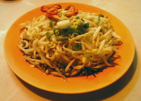 Bean sprouts that come with the Bean Sprouts Chicken.